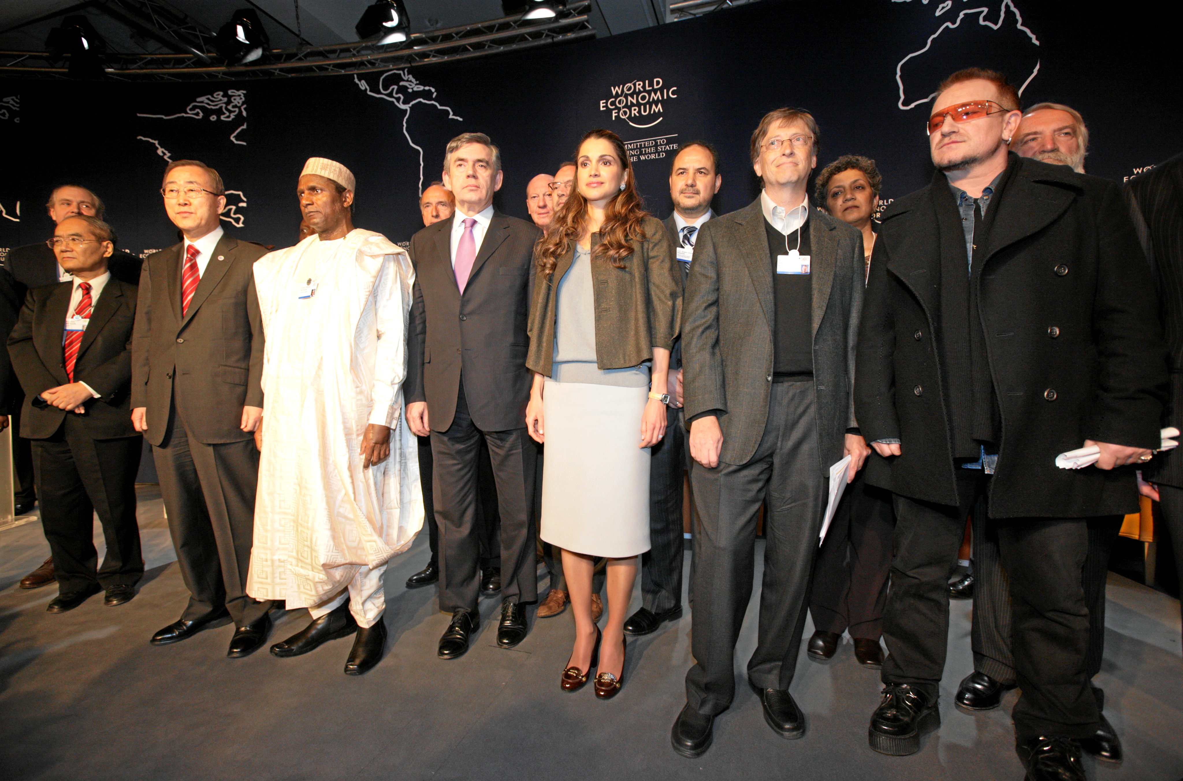 DAVOS/SWITZERLAND, 25JAN08 - Bono (R), William H. Gates III, Chairman, Microsoft Corporation, USA (2R), H.M. Queen Rania (3R) Al Abdullah of the Hashemite Kingdom of Jordan, Member of the Foundation Board of the World Economic Forum, Gordon Brown, Prime Minister of the United Kingdom (4R), Yar' Adua, President of Nigeria (5R), Secretary General of the United Nations Ban Ki- Moon (6R) and other participants stand together to 'Call to Action on the Millenium Development Goals' during the Annual Meeting 2008 of the World Economic Forum in Davos, Switzerland, January 25, 2008.